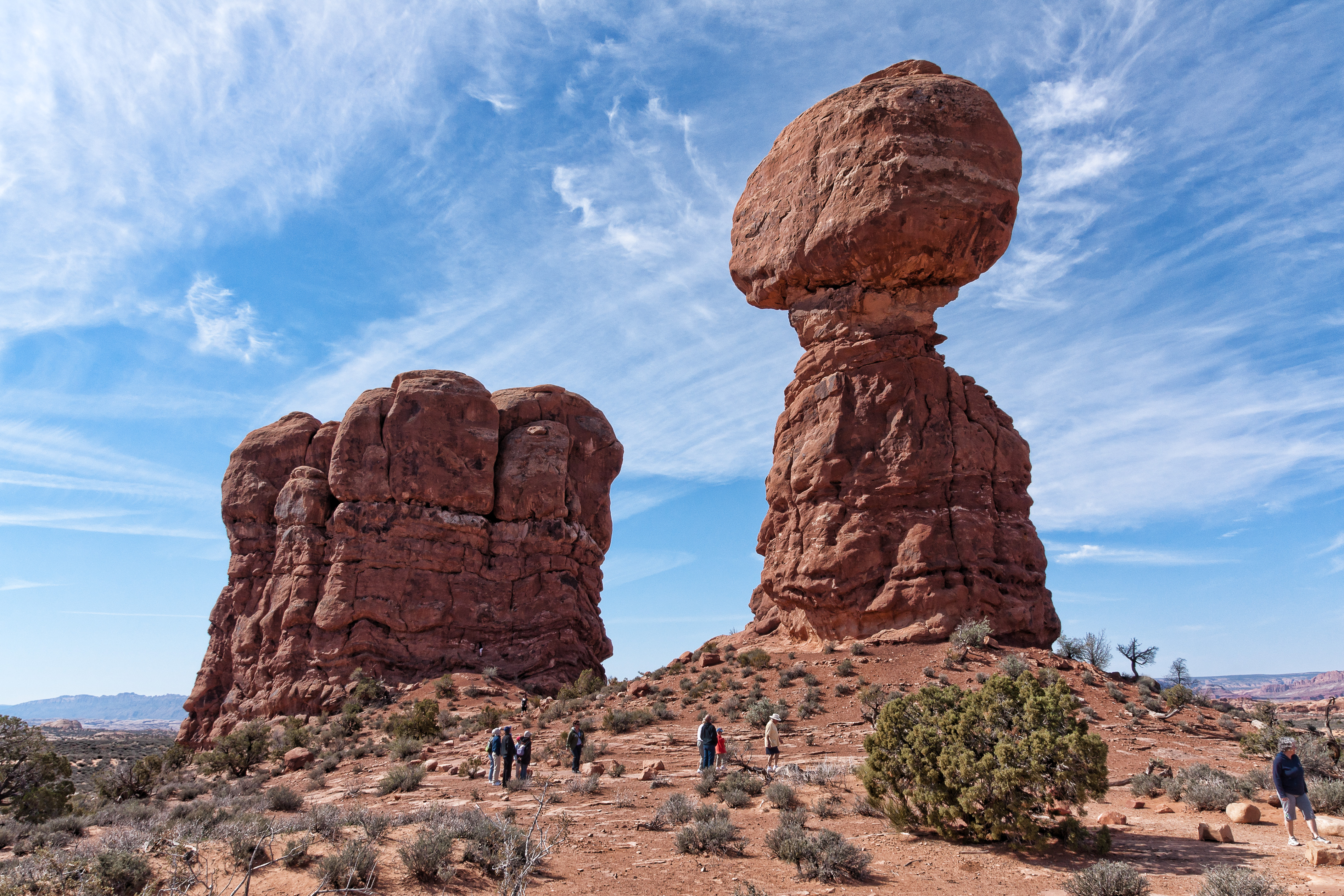 Arches National Park - Balanced Rock